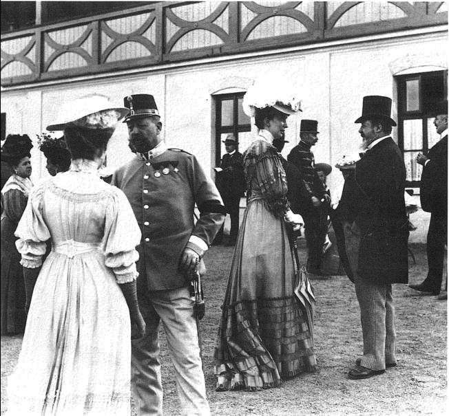 At the horseraces Kuchlbad in Prague: from left to right Johanna, Princess Rohan talking to Philippine, Countess Buquoy, Zdenko, Prince Lobkowitz talking to one of his daughters, and Archduchess Maria Annunziata of Austria (also called Miana) speaking to Georg, Prince Lobkowitz, who was the Landmarshall of Bohemia.